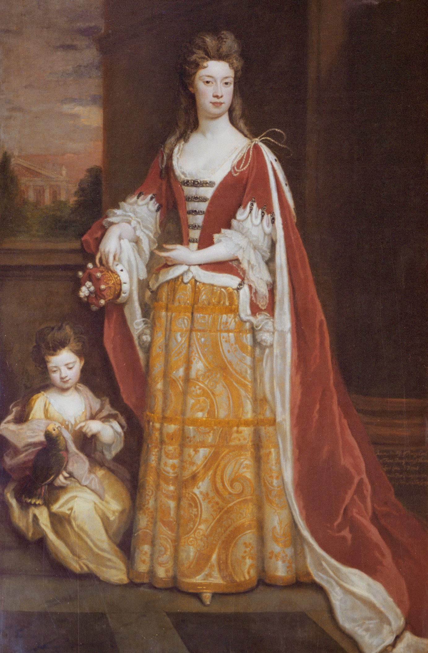 Portrait of Jemima Crew as Countess of Kent, in coronation robes and holding her coronet in her right hand, with her daughter, Lady Jemima Grey